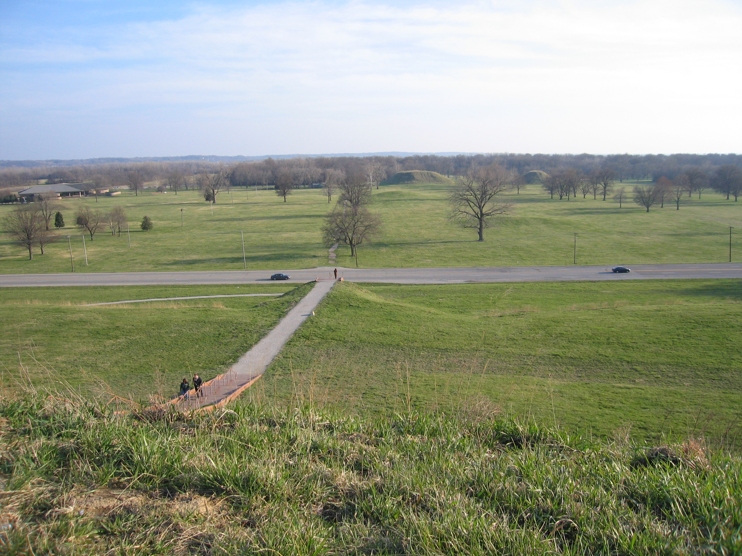 I took this picture on the very top of Monk's Mound, which is 100 ft tall.. [1] You can see other small mounds in the distance.